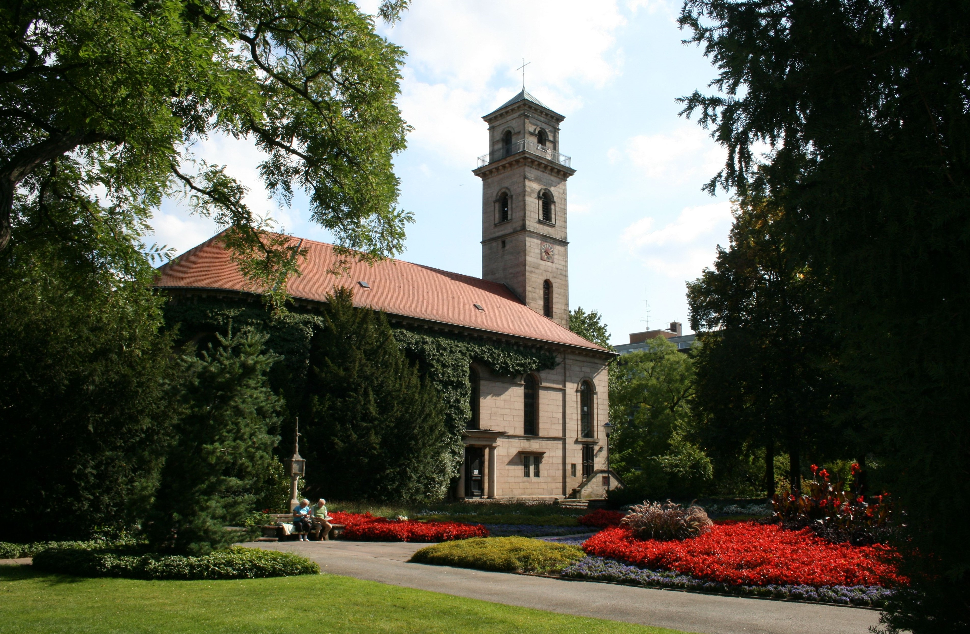 Germany, Fürth, Resurrection Church